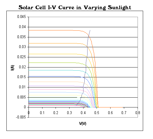 Solar cell current-Voltage curve with the max power point indicated